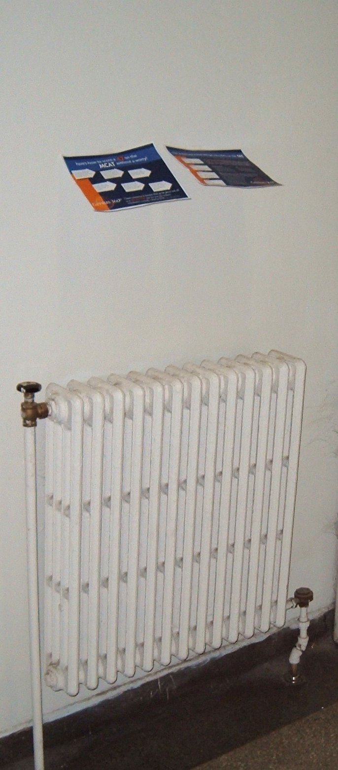 Convection shown by papers blowing in a closed area